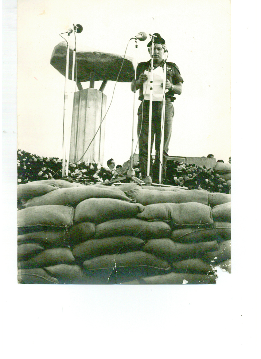 Latrun ceremony - Armored Corps, the picture above appears at the General Avraham Adan after the Six Day War